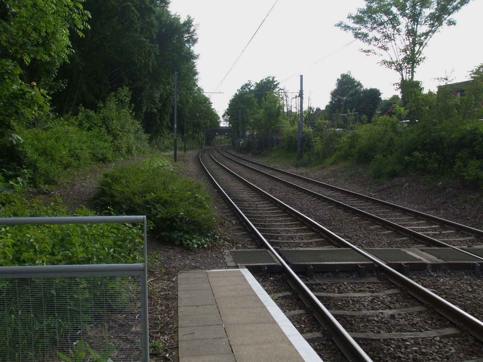 Woodside tram stop looking south. This is the former site of the main line Woodside station, closed in 1997, and the junction of the Selsdon and Addiscombe branches lay just to the south of the bridge in the distance.